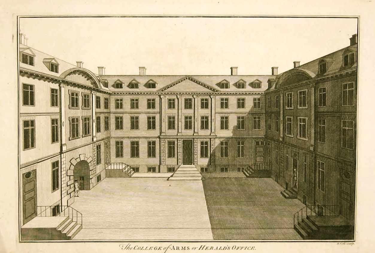 Engraving is labeled as "The College of Arms or Herald's Office." This is an engraving of the inner courtyard of The College of Arms, the registry place of the coats of arms of English gentry on Queen Victoria Street, London.